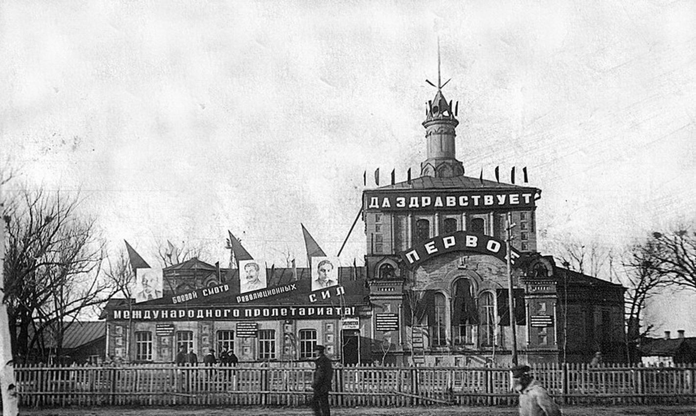 Church of sacred prince Alexander Nevsky (Rtishchevo, 1924)